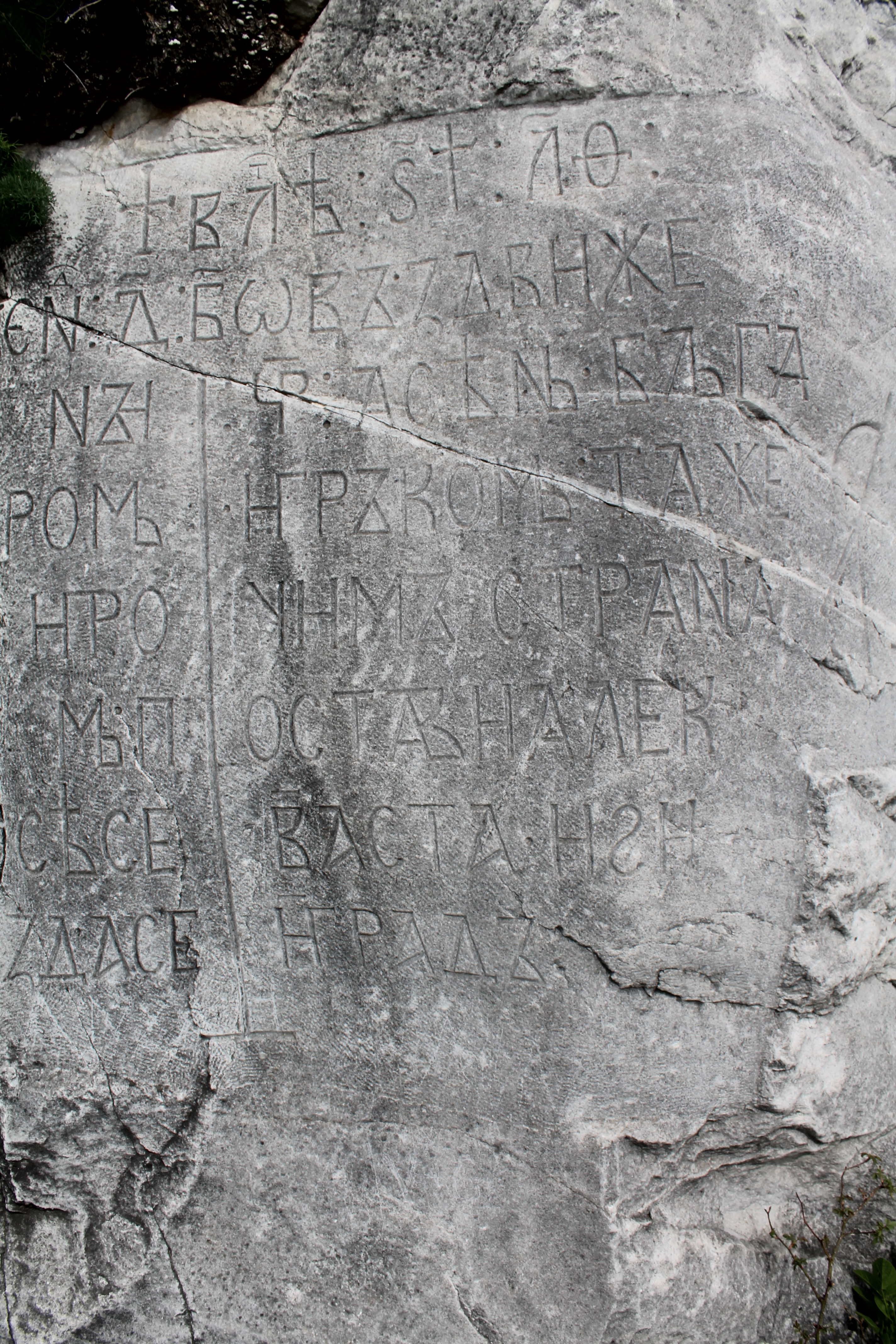 Stanimaka inscription of Tsar Ivan Asen II from 1231, Asenovgrad, Bulgaria